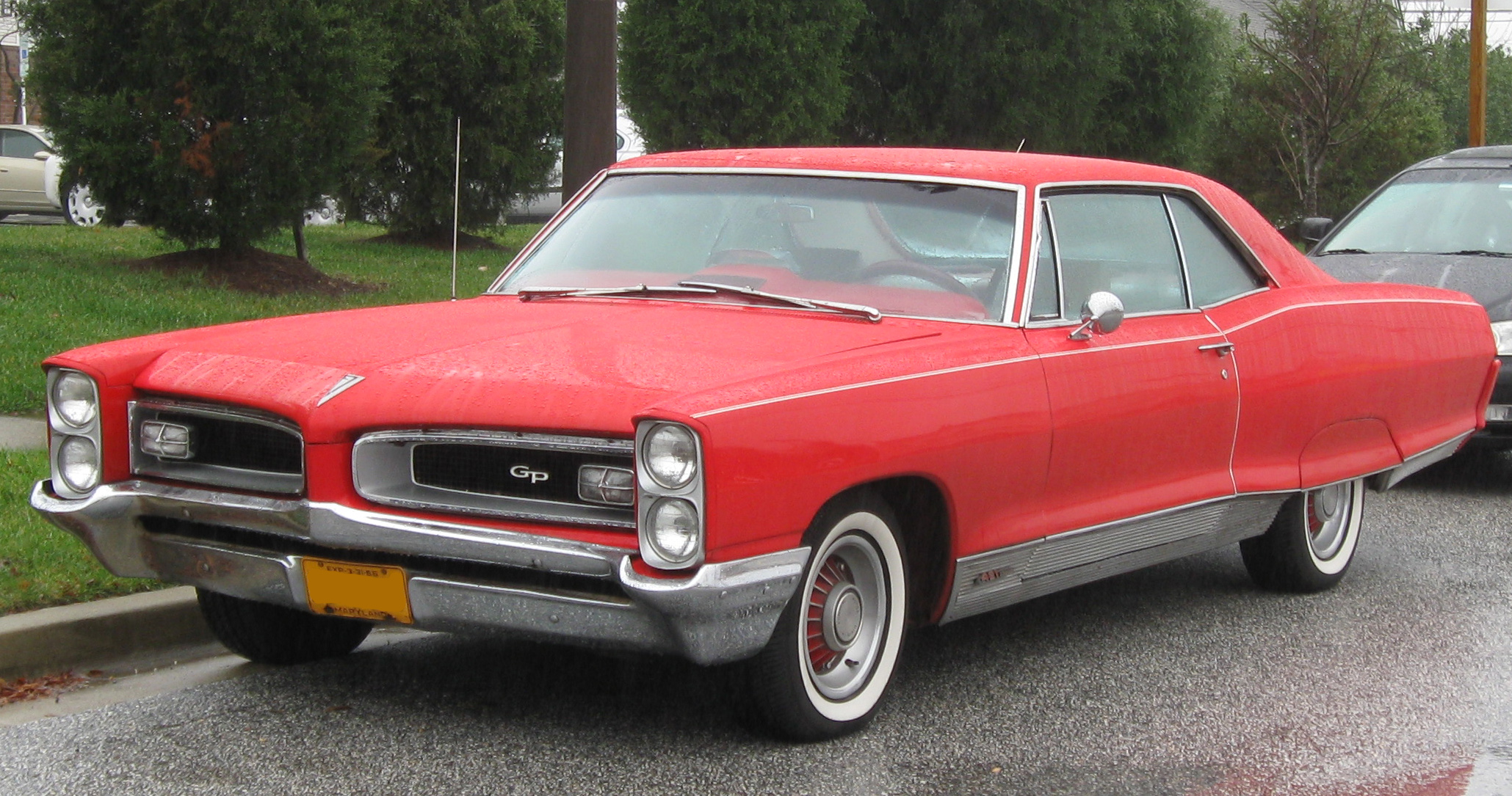 1966 Pontiac Grand Prix photographed in Bowie, Maryland, USA.